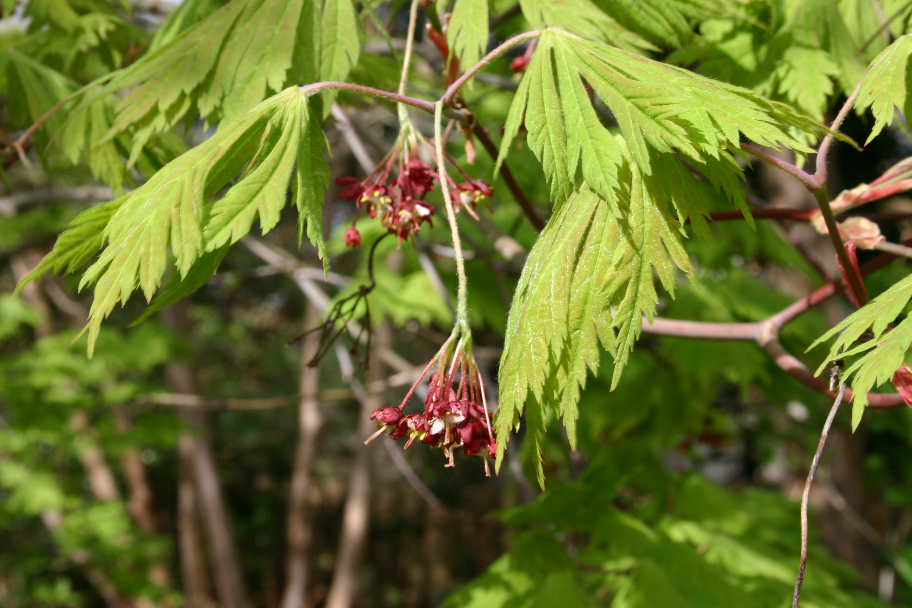 Flowers on Acer japonicum